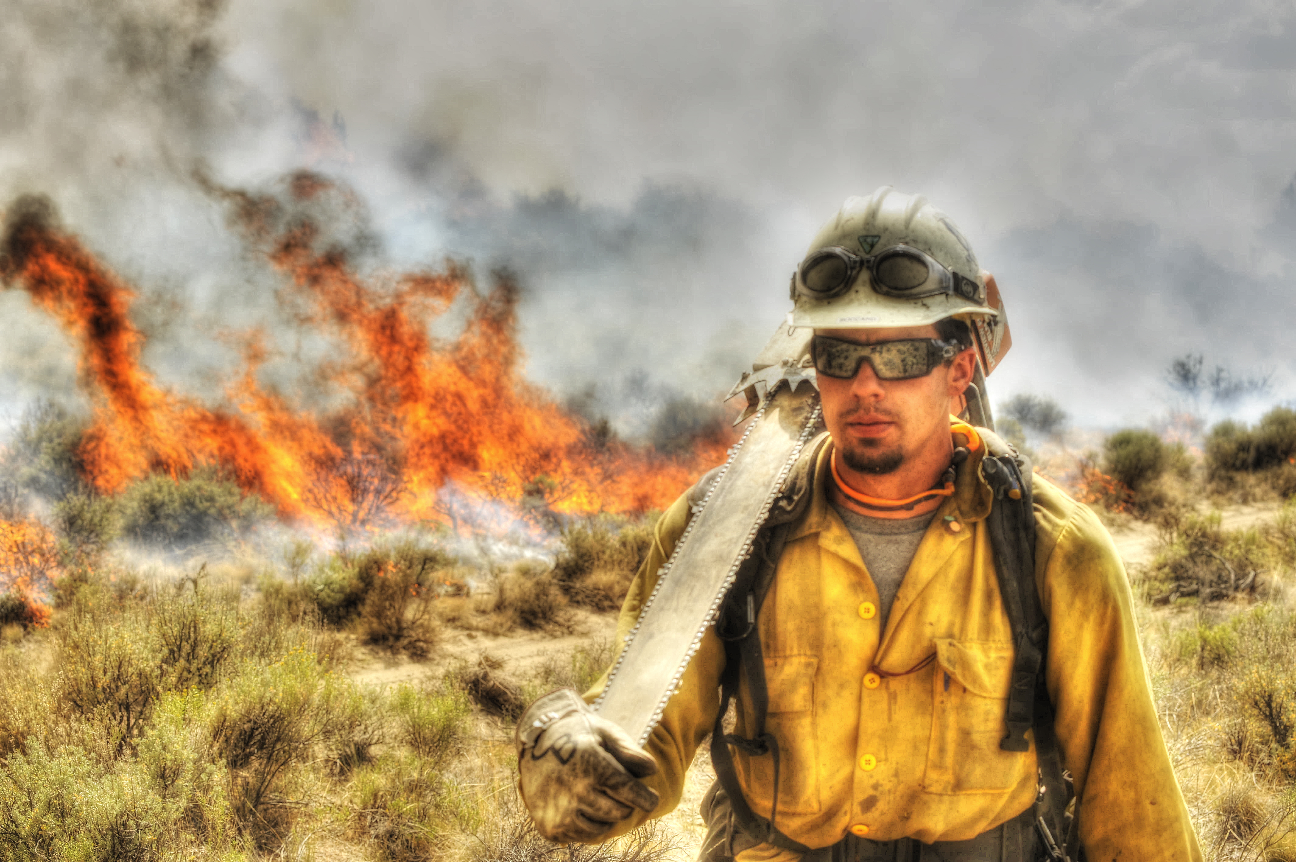 The Lava Fire started on July 23, and is currently around 8,100 acres (3,300 ha). The fire was ignited by lightning and detected on July 23. This fire is about 20 percent contained. It is approximately 15 miles (24 km) northeast of Christmas Valley and Ft. Rock, Oregon: Latitude (43.4892) Longitude (-120.7572). The fire is burning vegetation inside of a lava flow, which is located within a Wilderness Study Area (WSA). Smoke may be visible for several weeks if weather remains hot and dry. Additional information is always available online at